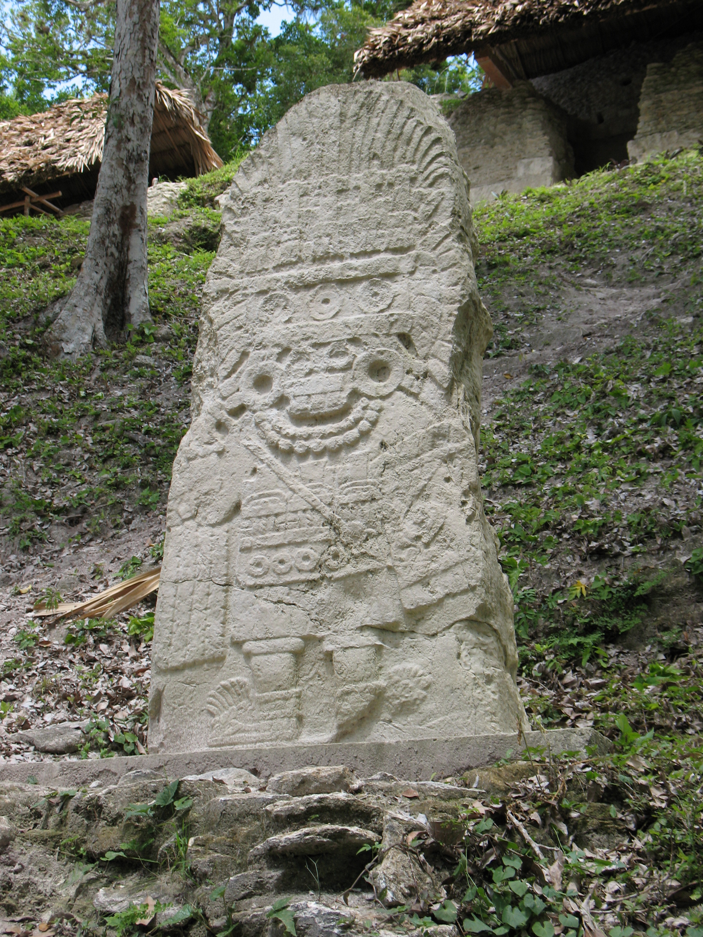 Stela 11 at Yaxha, Peten, Guatemala, dating to the Early Classic and depicting a Teotihuacan-garbed warrior.